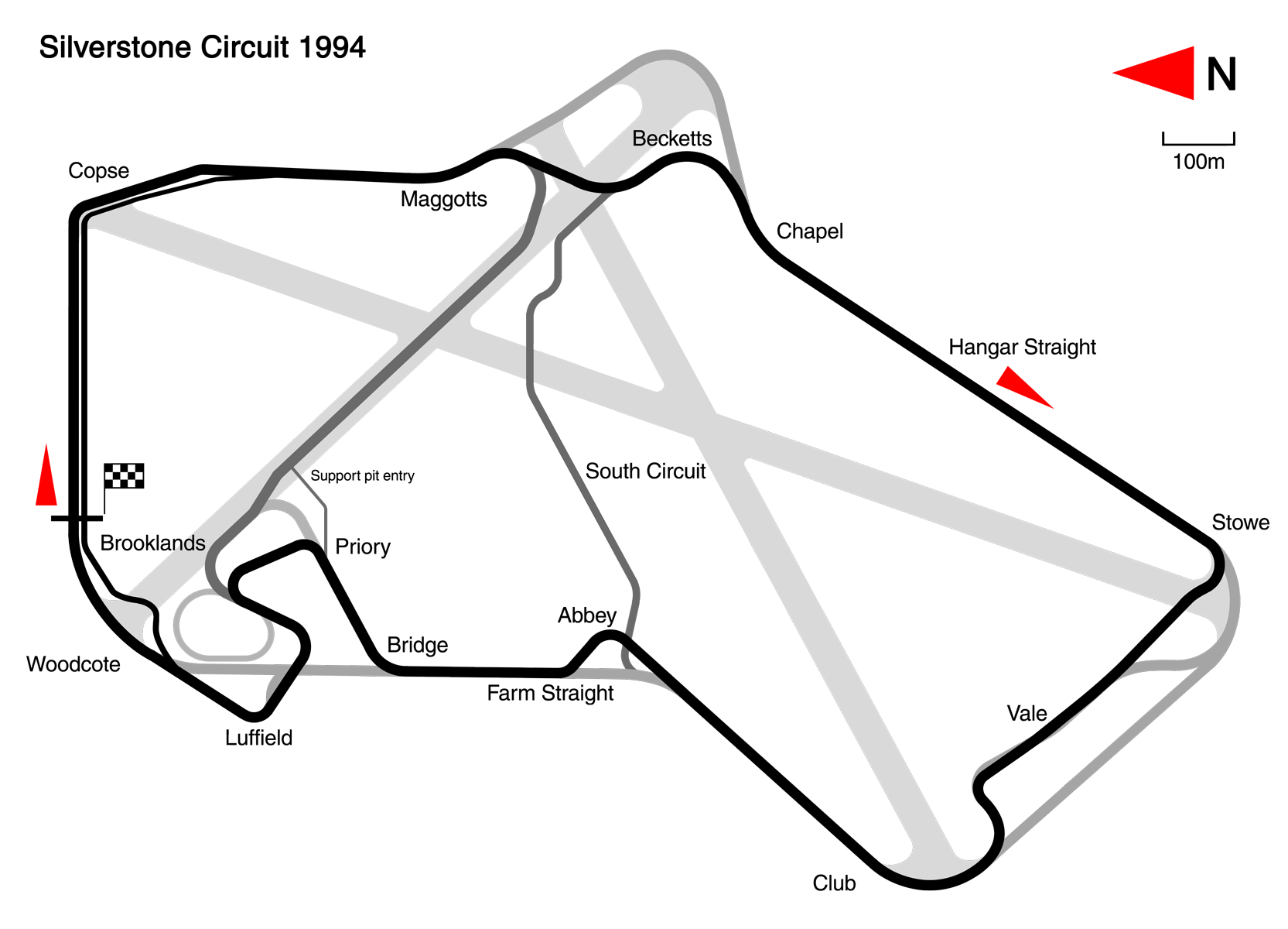 Track diagram of Silverstone Circuit in the UK in 1994 configuration. Made to scale from aerial photographs.